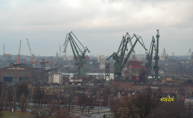 Author: esbi